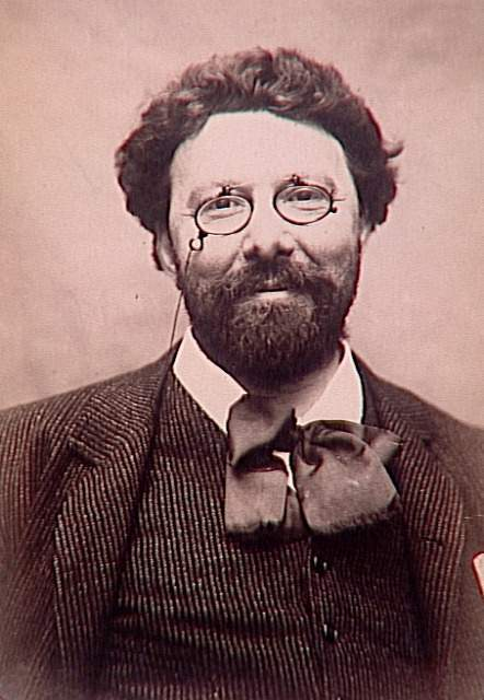 Alfred-Pierre Agace (29 August 1843 – 15 September 1915), also known simply as Alfred Agache, was a French academic painter.